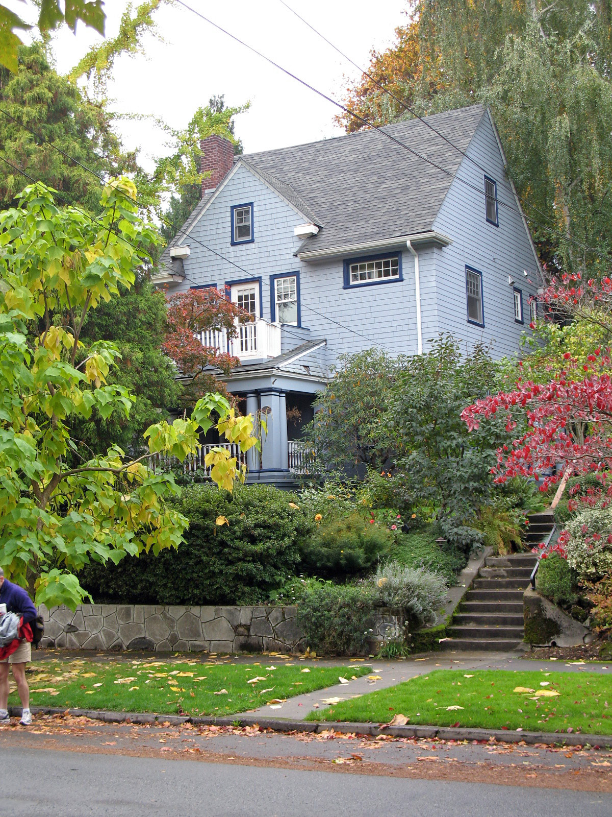 National Register of Historic Places listings in Northeast Portland, Oregon. Henry B Dickson House, 2123 NE 21st Ave, Portland, OR. Photographed October 25, 2009 from the east side of NE 21st Ave. between NE Thompson and NE Tillamook St.